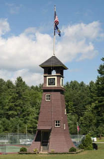 This is a picture of the infamous Camp Billings Clocktower.